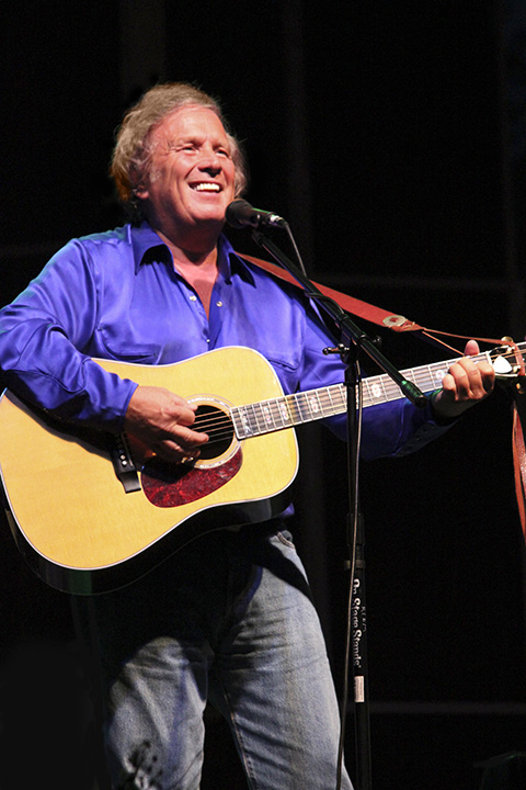 Don McLean in concert, Westport, 2009